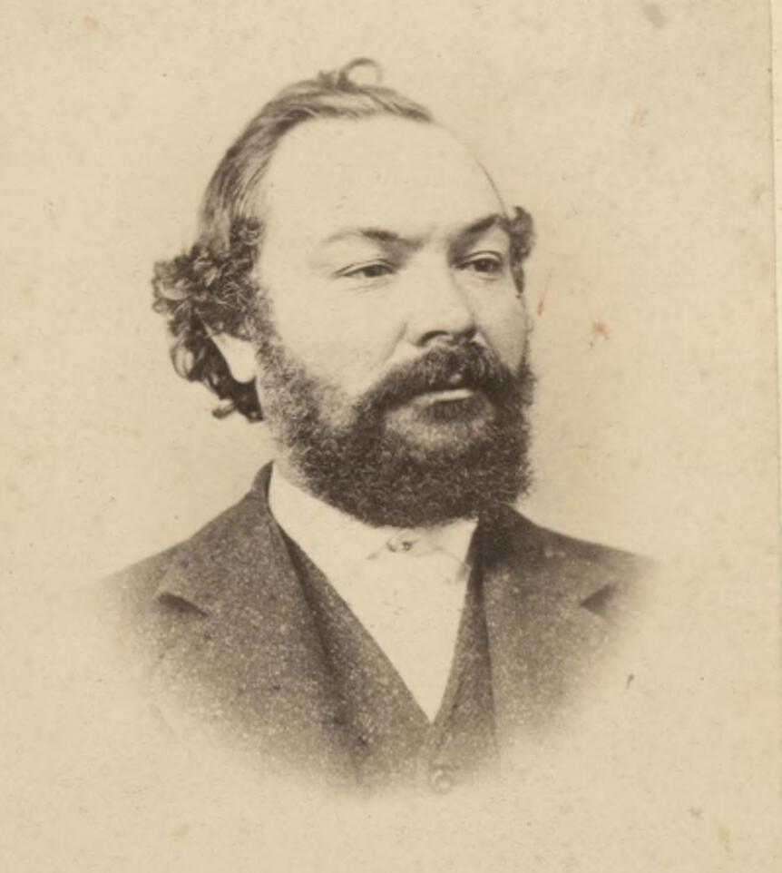 A portrait from the Welsh Portrait Collection at the National Library of Wales. Depicted person: Andrew Jones Brereton – Welsh writer